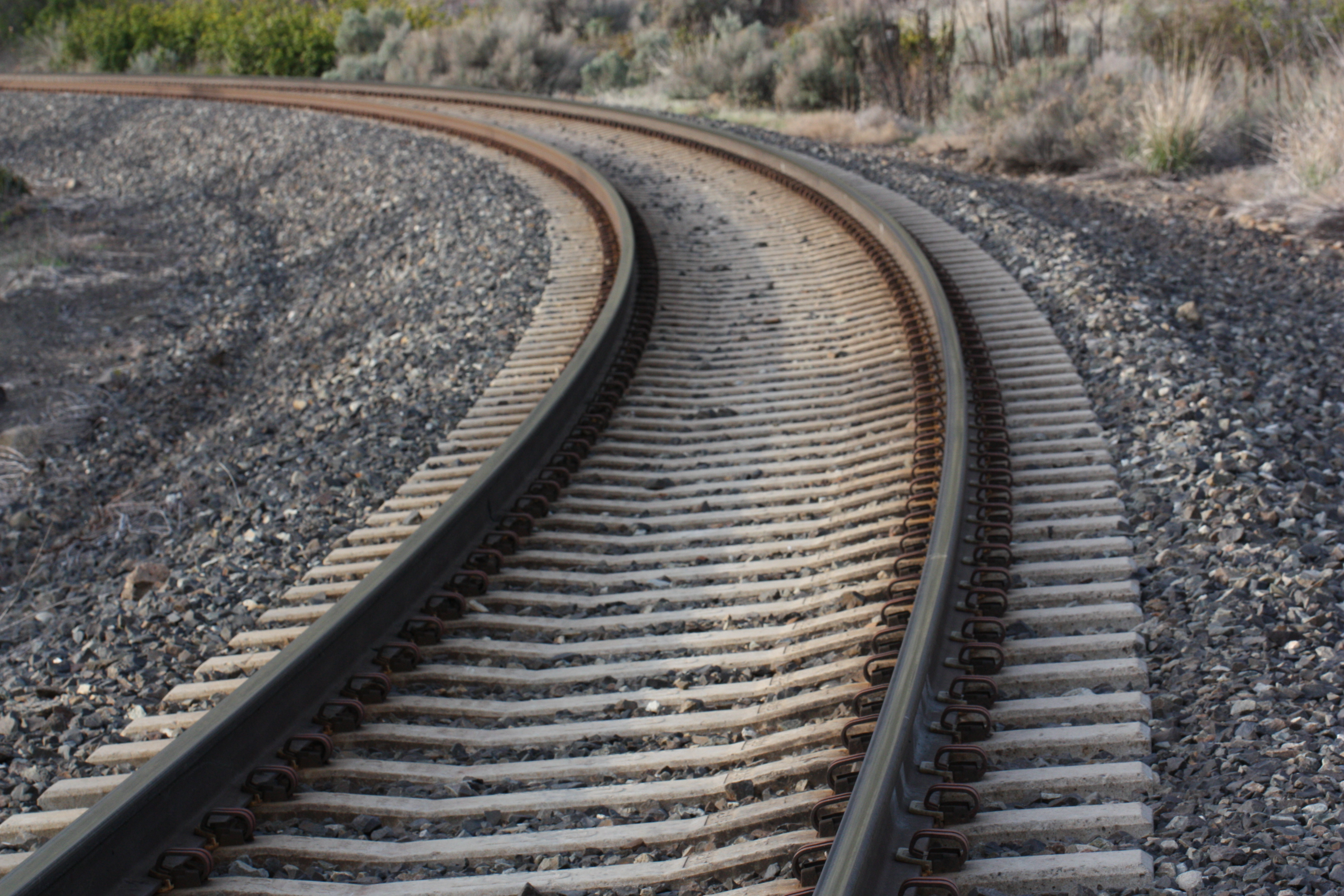 Concrete sleeper Category:BNSF Railway